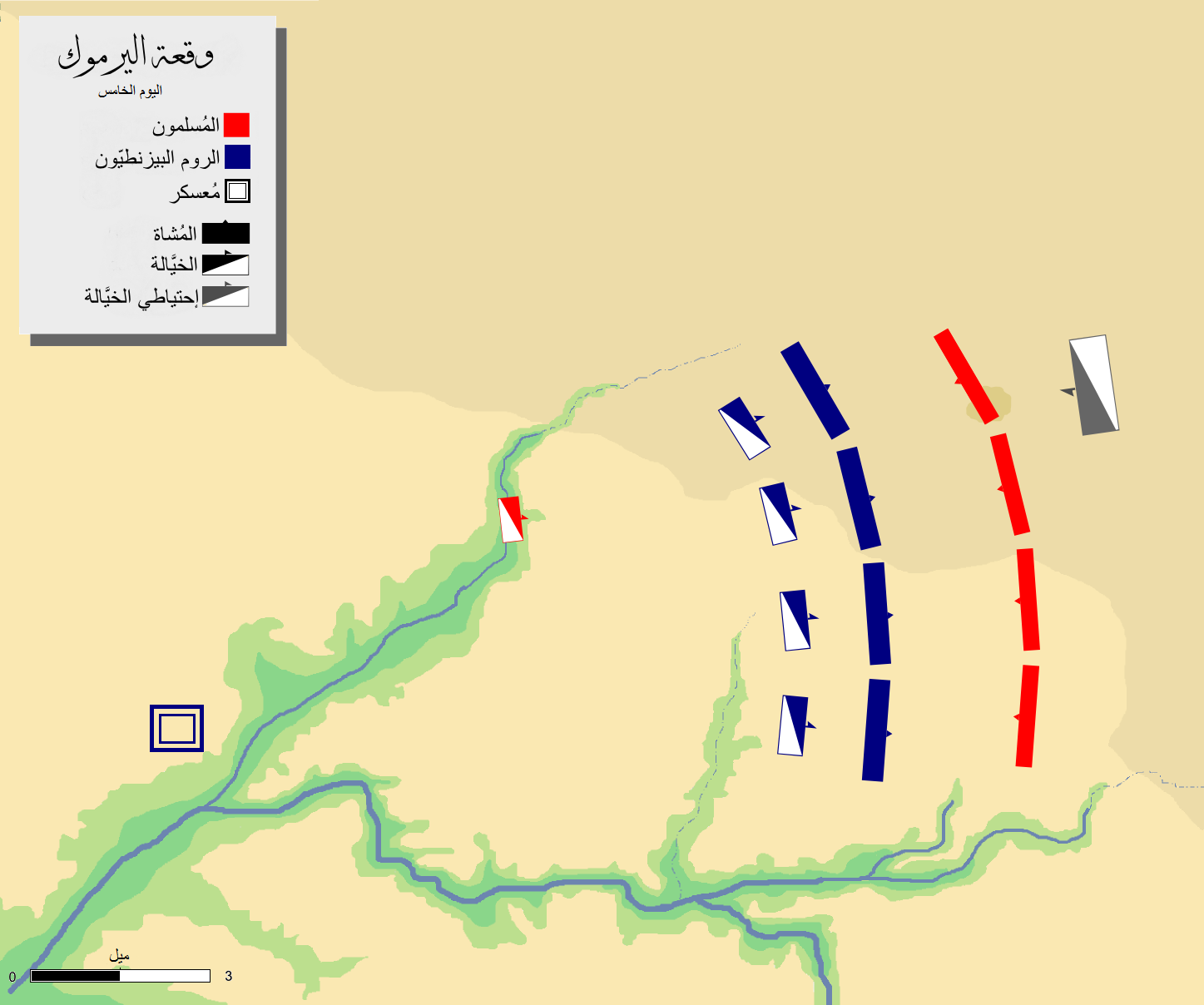 Battle_of_Yarmouk-day-5